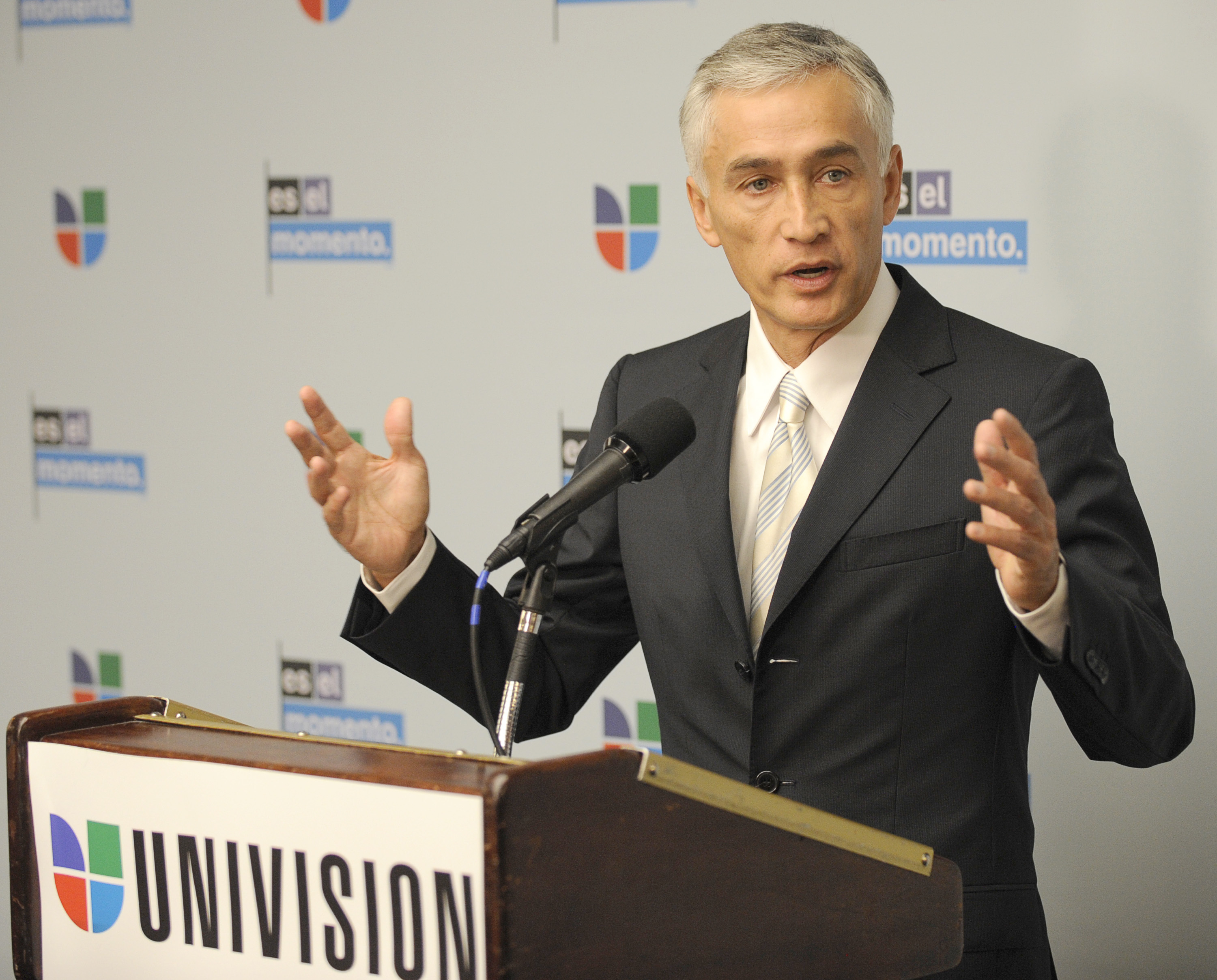 Univision news anchor Jorge Ramos speaks at an event at the National Press Club in Washington, Tuesday, Feb. 23, 2010. NASA is working with Univision Communications Inc. to develop a partnership in support of the Spanish-language media outlet's initiative to improve high school graduation rates, prepare Hispanic students for college, and encourage them to pursue careers in science, technology, engineering and mathematics, or STEM, disciplines. Photo Credit: (NASA/Bill Ingalls)